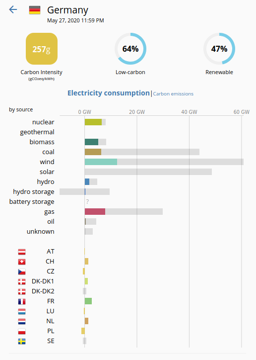 Electricity generation related CO2 emissions in Germany as of 27 May 2020 with overall CO2 intensity of 257 gCO2eq/kWh.